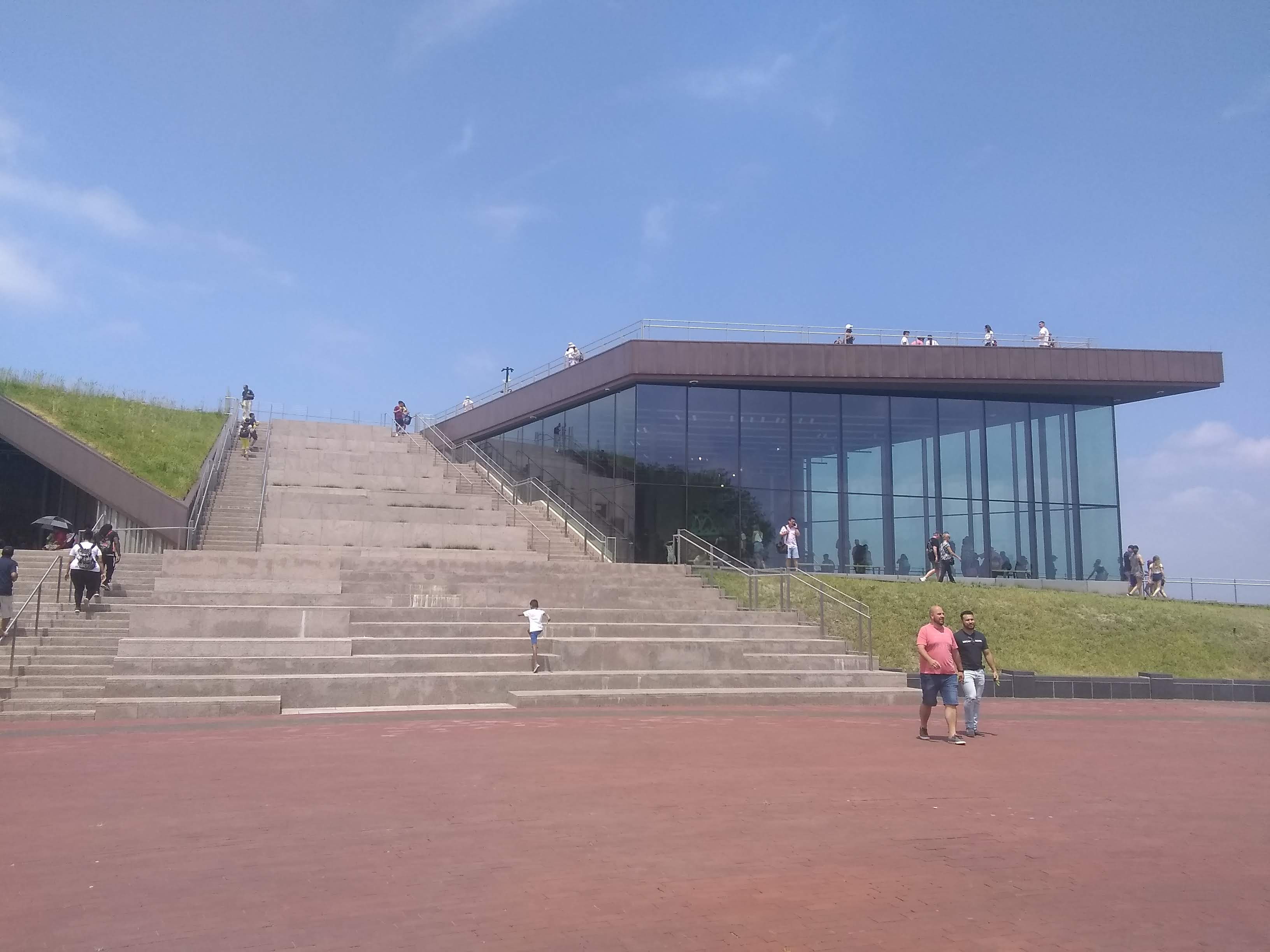 Liberty Island in New York Harbor, seen in July 2019. Statue of Liberty Museum.